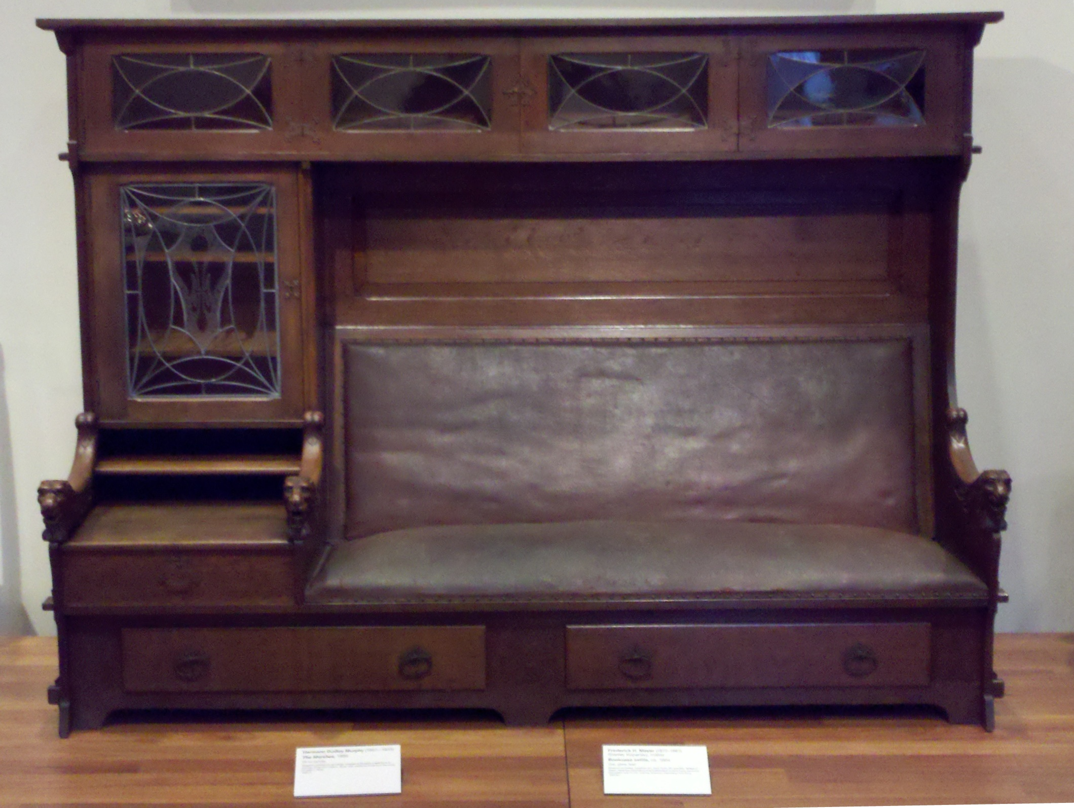 A 1904 bookcase settle by Frederick H. Meyer, on display at the De Young Museum in San Francisco